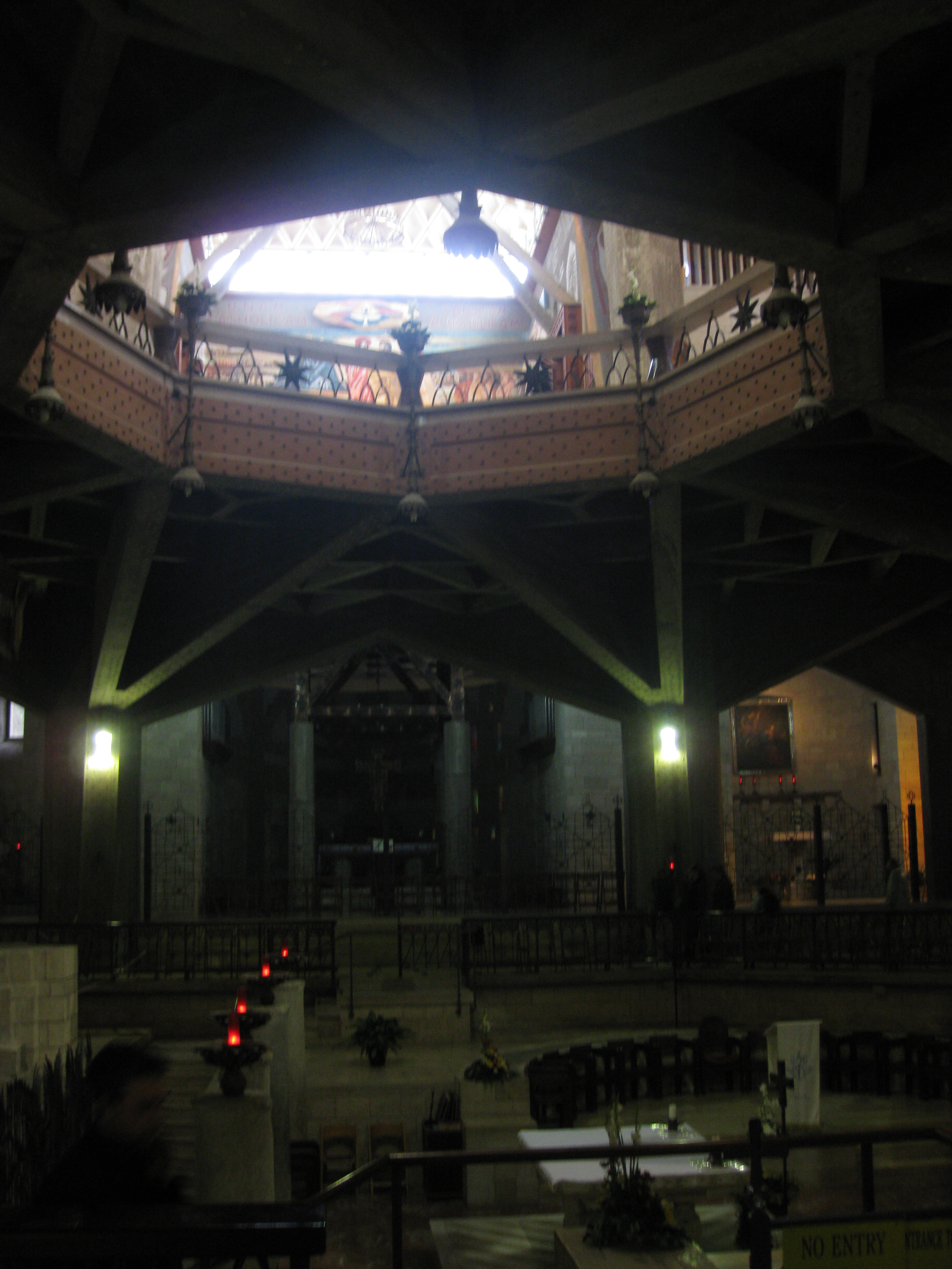 The Church of the Annunciation כנסיית הבשורה בנצרת